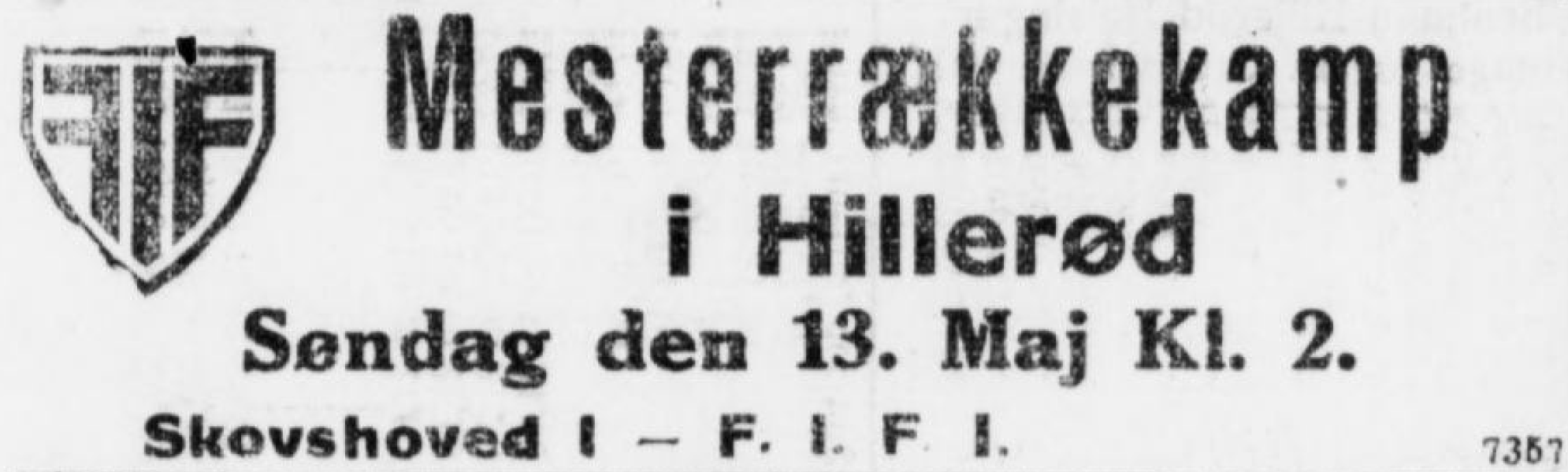 Advertisement for a 1927–28 SBUs Mesterskabsrække football match on 13 May 1928 - The text reads: Mesterrækkekamp i Hillerød : Søndag den 13. Maj Kl. 2. Skovshoved I - F. I. F. I. : 7357. Featured in the advertisement is the old logo of the Frederiksborg IF.